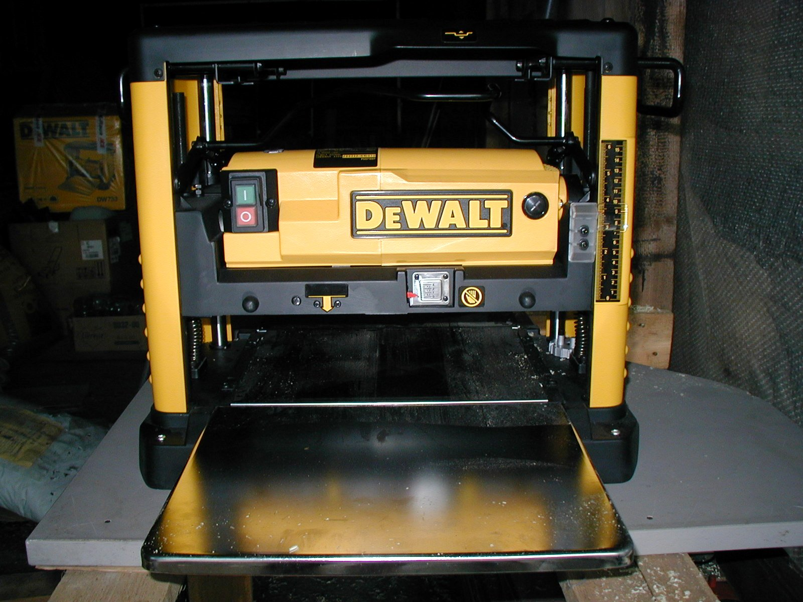 Thicknesser